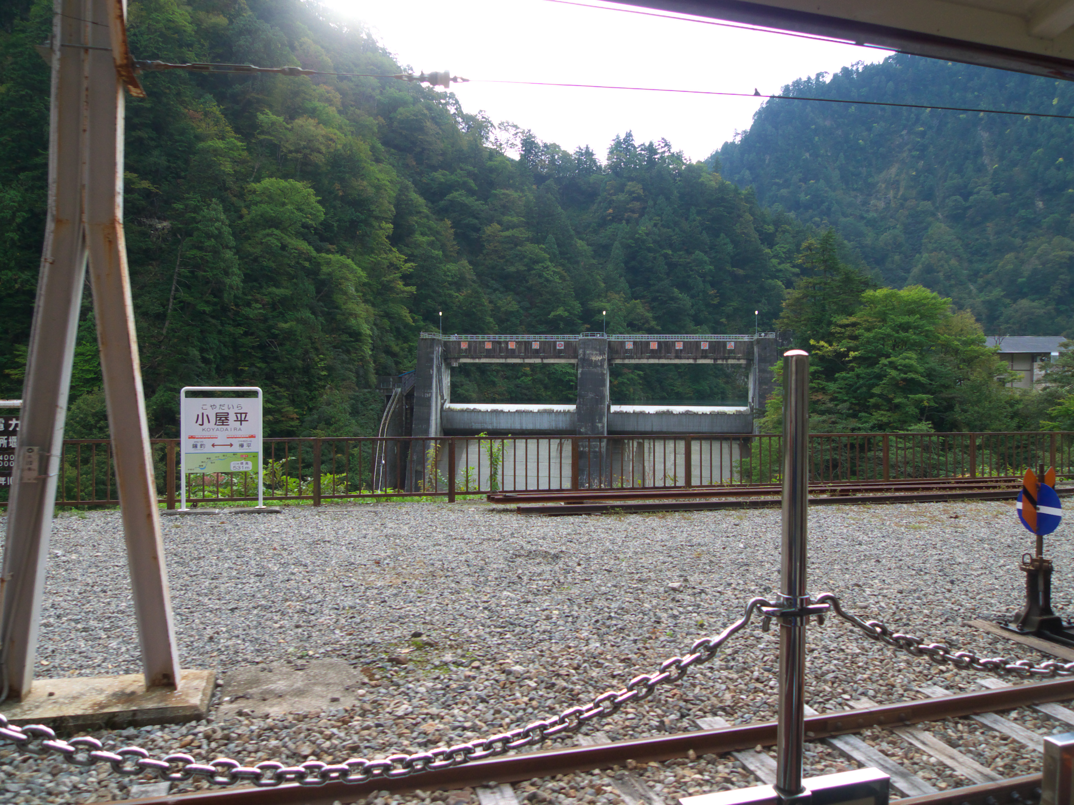 Kurobe Gorge Railway Koyadaira Station